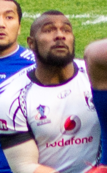 2013 Rugby League World Cup match between Samoa and Fiji at Halliwell Jones Stadium in Warrington.